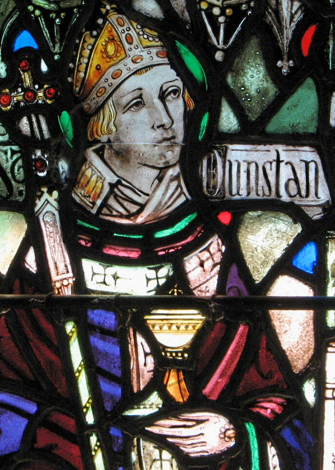 Monastic Chapel 1920, Holy Cross Monastery, West Park, New York. This is the Christian saint Dunstan in stained glass form. He was born in Somerset.